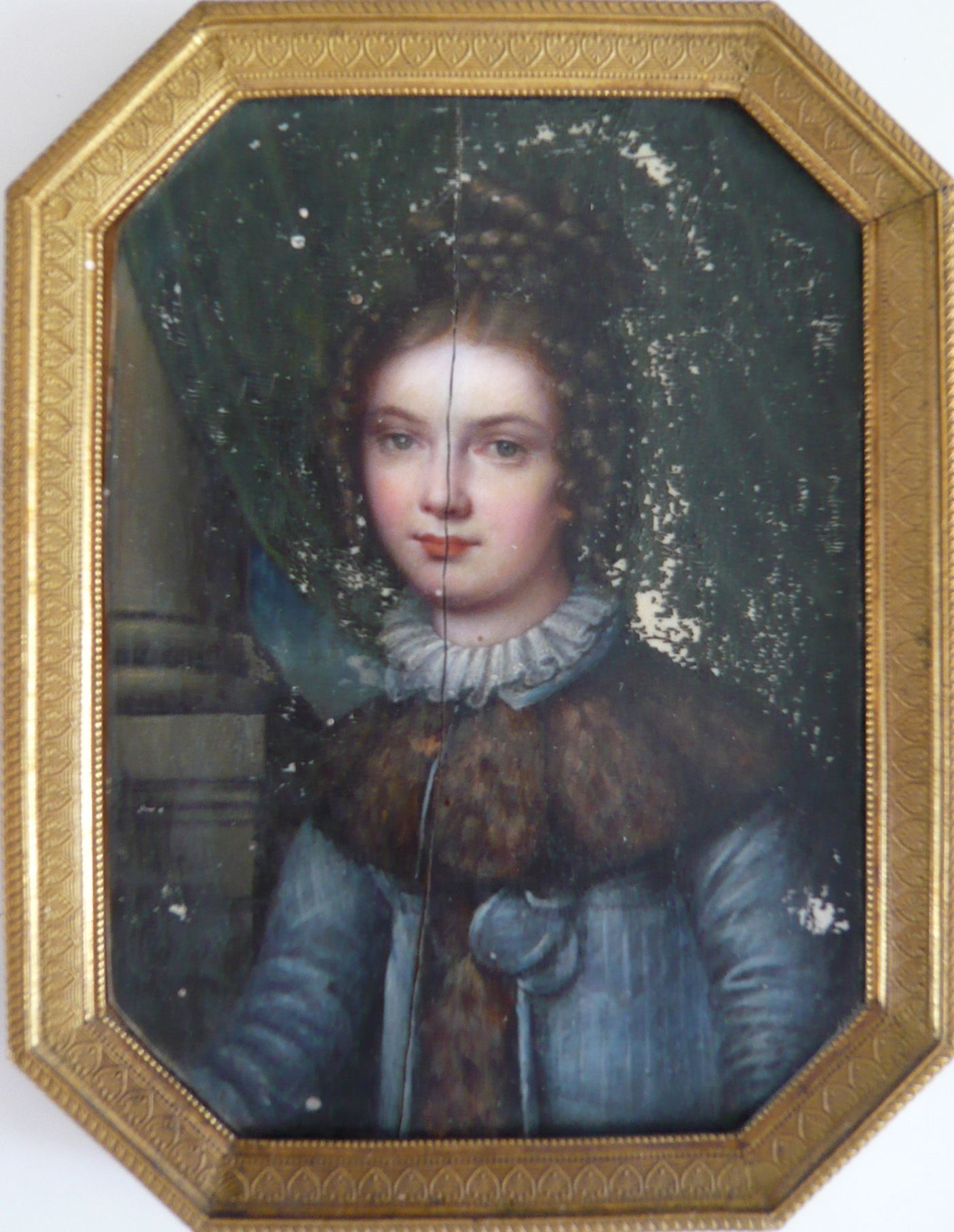 painting on ivory plate, which is added by a piece of wood on the backside, 8 x 11 cm, portrait of his first wife